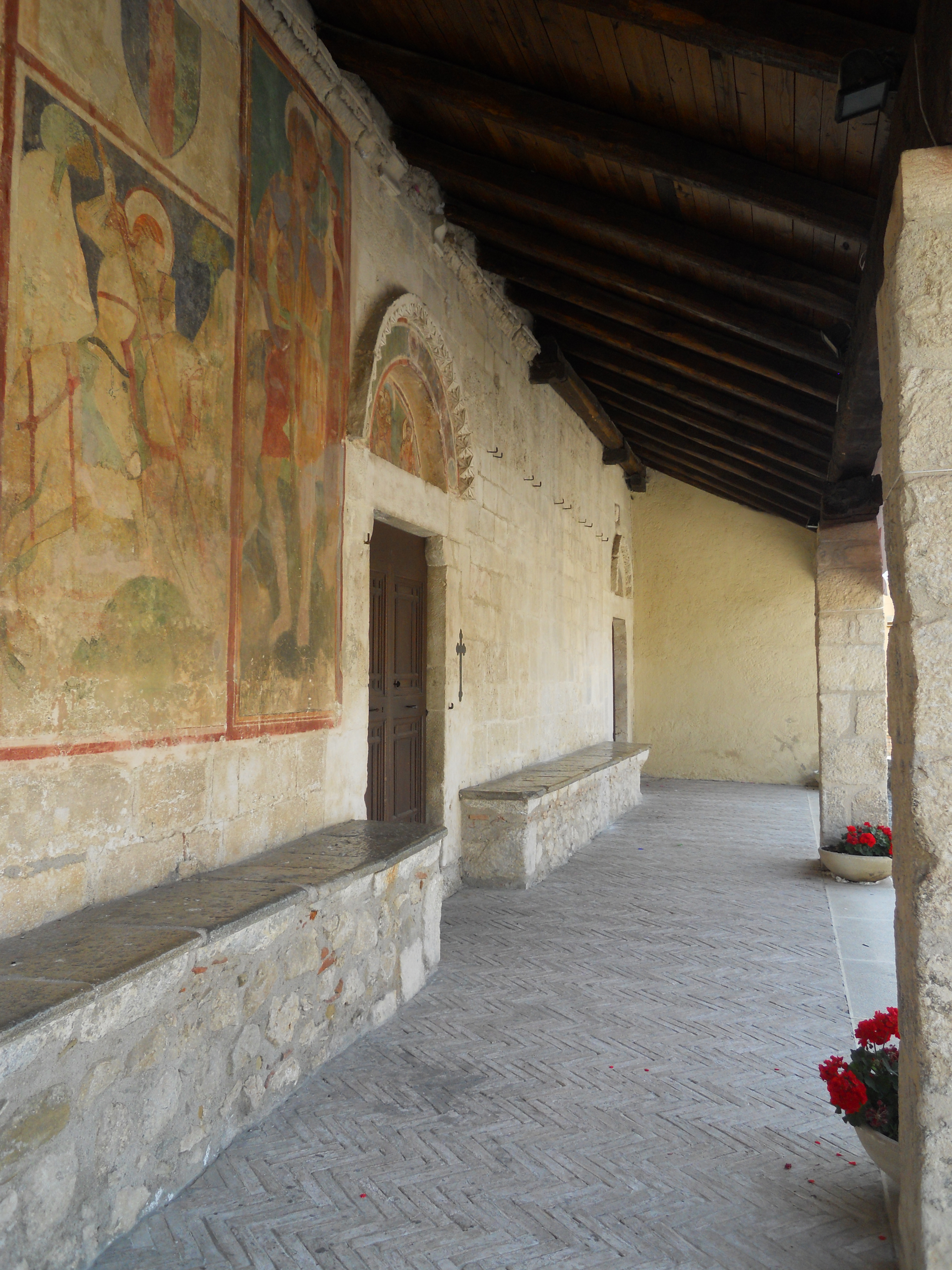 Saint Panfilo church, Villagrande (municipality of Tornimparte, Abruzzo, Italy) - Portico